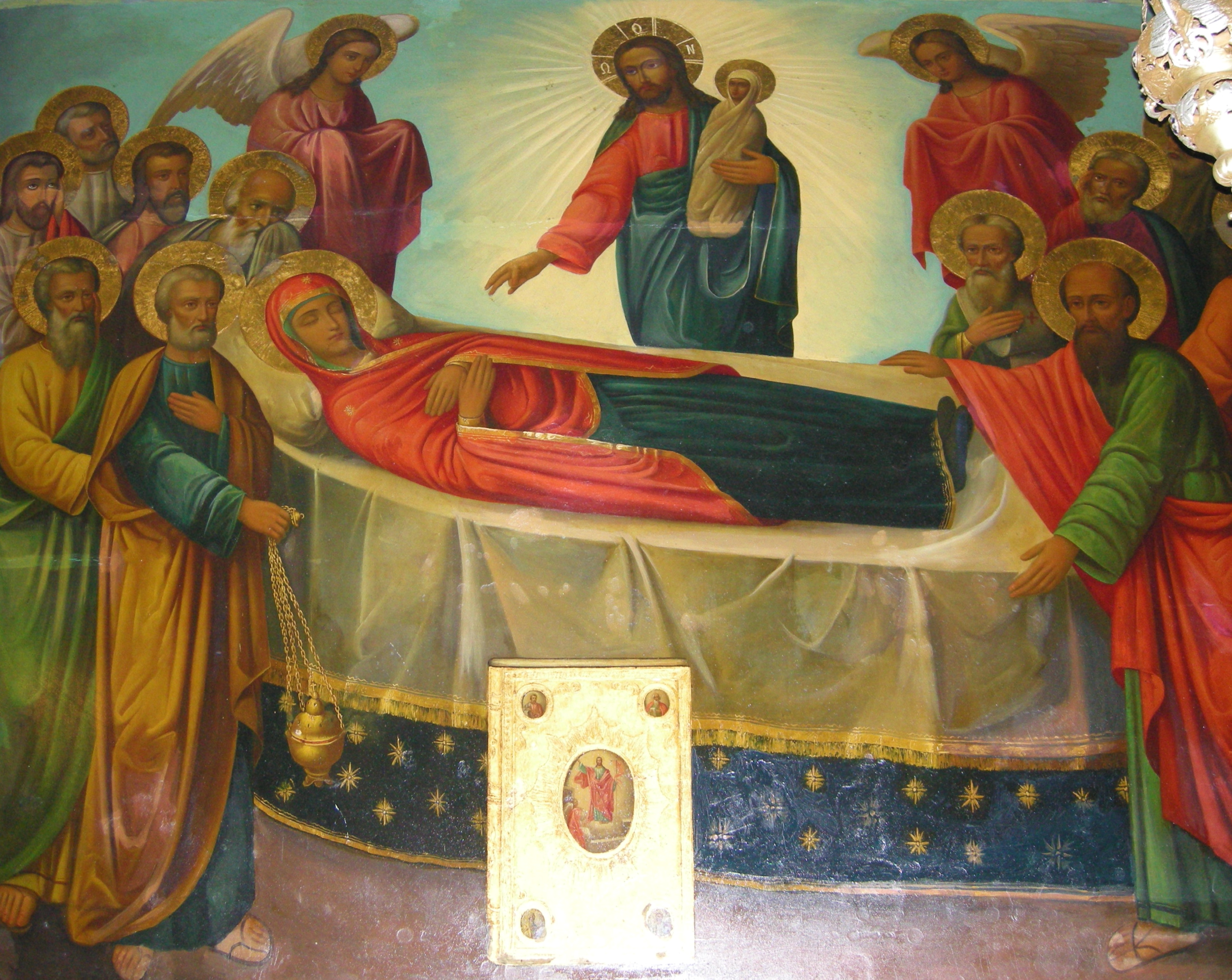 Icon of the Dormition of the Theotokos (Virgin Mary), Dormition Church (Mary's Tomb), Jerusalem